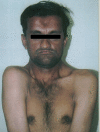 Facial profile view of the patient demonstrating hypermobility of the shoulder girdles and frontal bosselation.